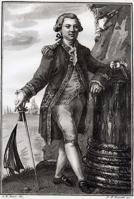 Engraving depicting Jean-François de Galaup, comte de Lapérouse, French naval officer lost at sea in 1788.